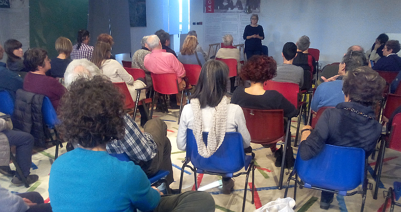 Servas local meeting in Collegno (Piedmont and Aosta Valley members, Italy)